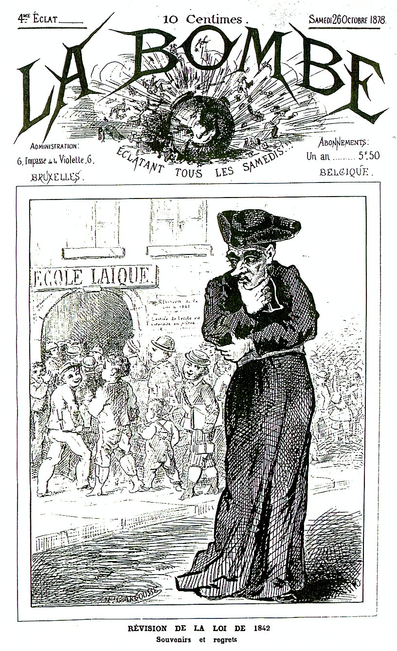 Cover of the belgian satirical magazin La Bombe about the First Schools' War. The caption reads: "Revision of the Law of 1842: Memories and Regrets".